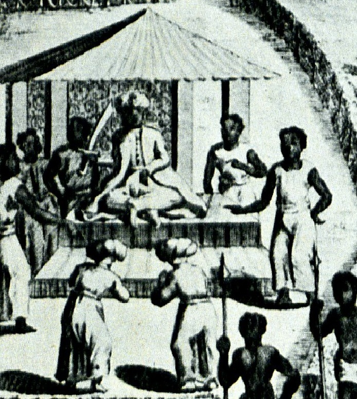 Romaniticizing depiction of Theodor Krump's visit of the court of Badi III, king of Sennar.